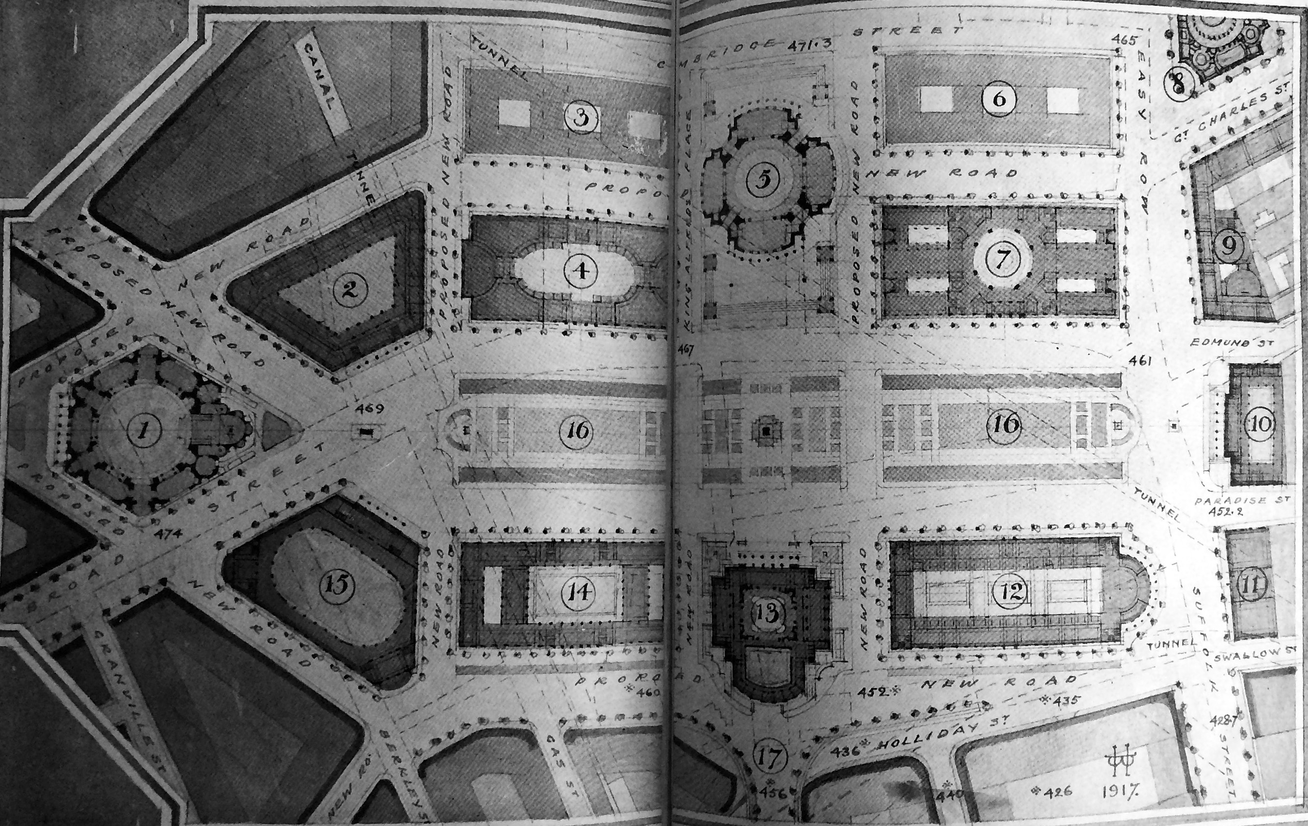 The original concept design by William Haywood in 1918 of the civic centre of Birmingham. Published in the book The Development Of Birmingham. Building Key: 1= Cathedral, 2 = Exhibition Hall, 3 = Site in reserve, 4 = Natural History Museum, 5 = The War Museum and Memorial, 6 = Site in reserve, 7 = Site in reserve for Municipal purposes, 8 = Opera House, 9 = Extension to Masons College, 10 = Extension to Central Library, 11 = Hall of Consulates, 12 = The New Post Office, 13 = The Municipal Buildings, 14 = A Hall of Machinery, 15 = Exhibition Hall, 16 = Formal Gardens, 17 = The new bridge road to Holloway Head.